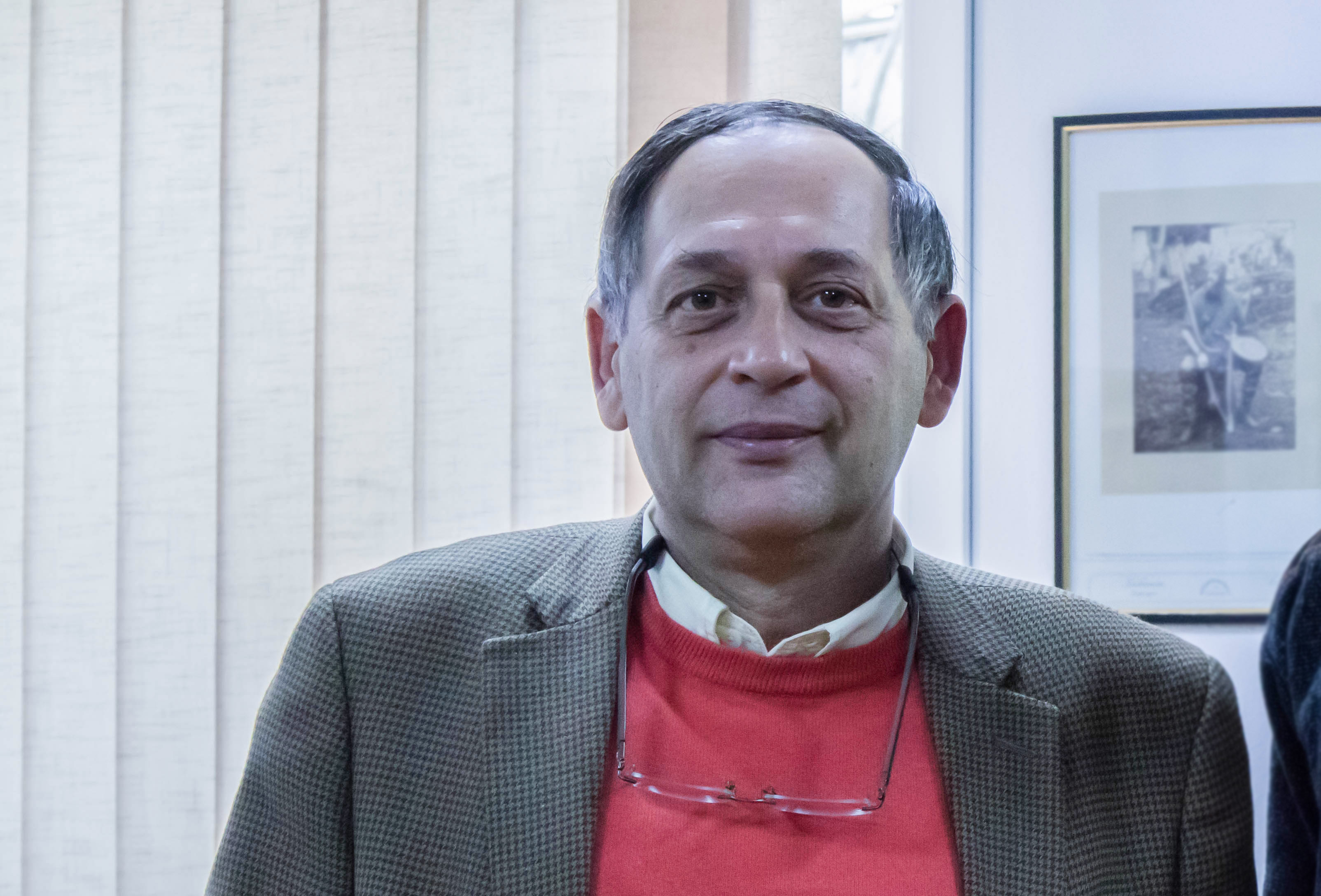 georgi sanakidze giorgi sanakidze georgi sanikizde giorgi sanikidze